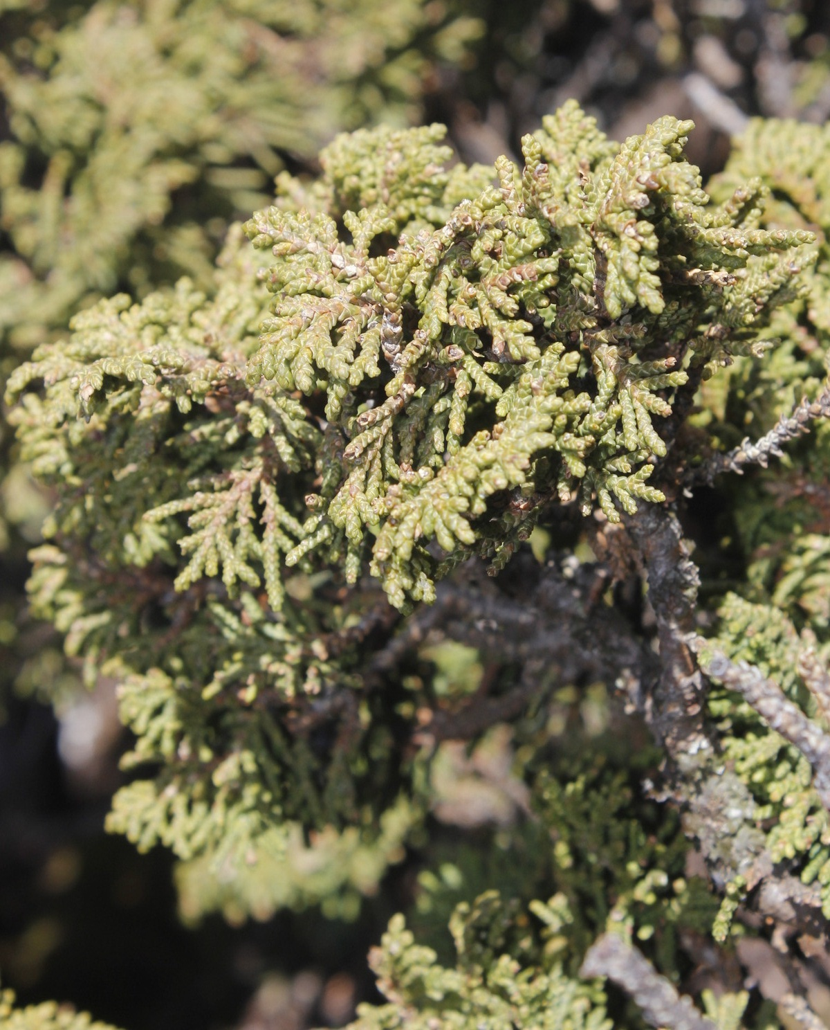 Juniperus zanonii is a shrub from the cypress family, native to the mountains of Northeast Mexico. This photo was shot by Juan Cruzado Cortés on Cerro Potosí in the state of Nuevo León and published on iNaturalist: Juan, whom I know personally, gave me permission to rehost this photo on Wikimedia for its use on the plant's Wikipedia article. I cropped the image to edit out the blurred right part of the original picture.